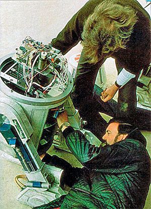 John Stears working on remote controlled R2D2 Unit